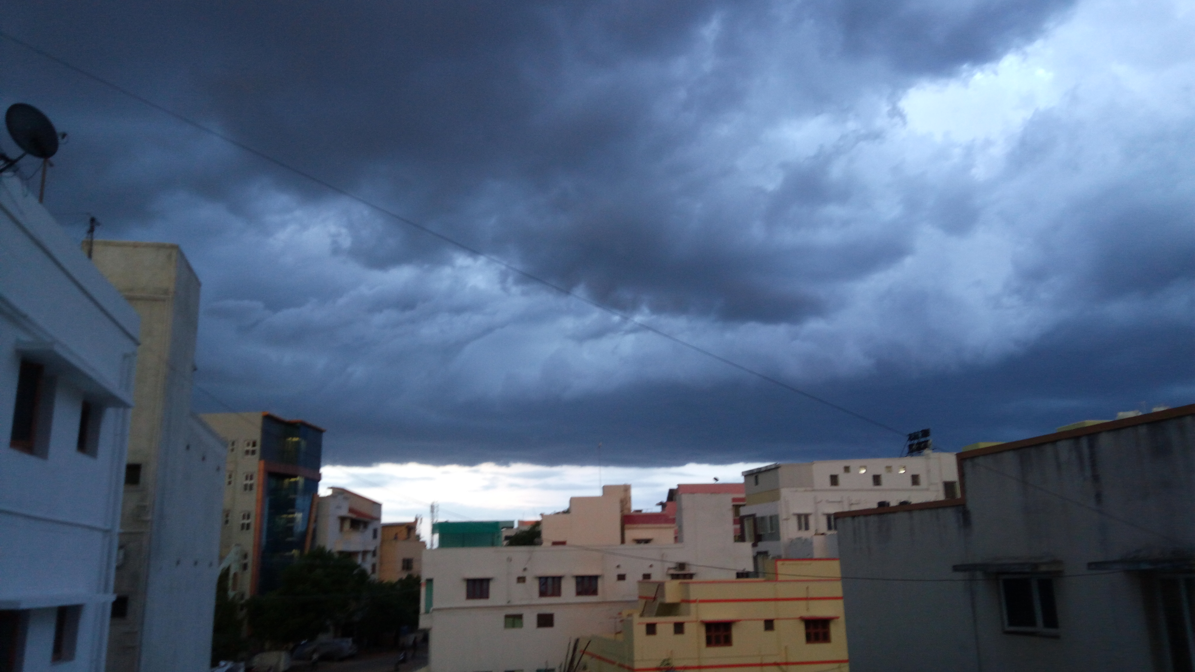 Cloudy evening